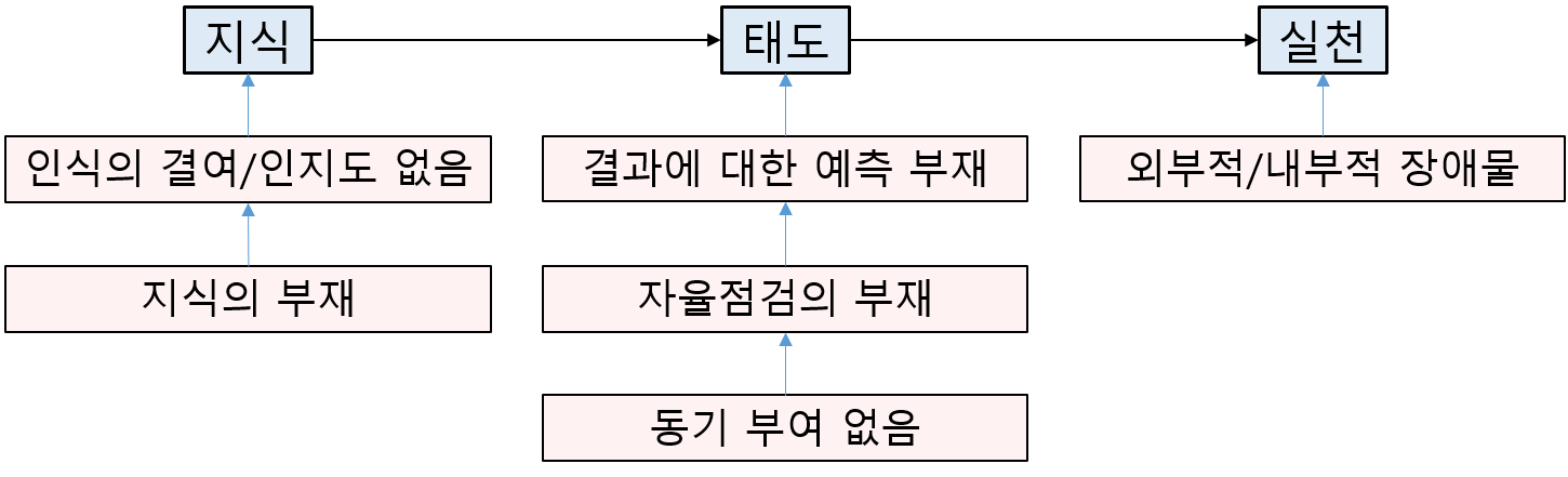 Korean translation version of Figure 1 in [1]